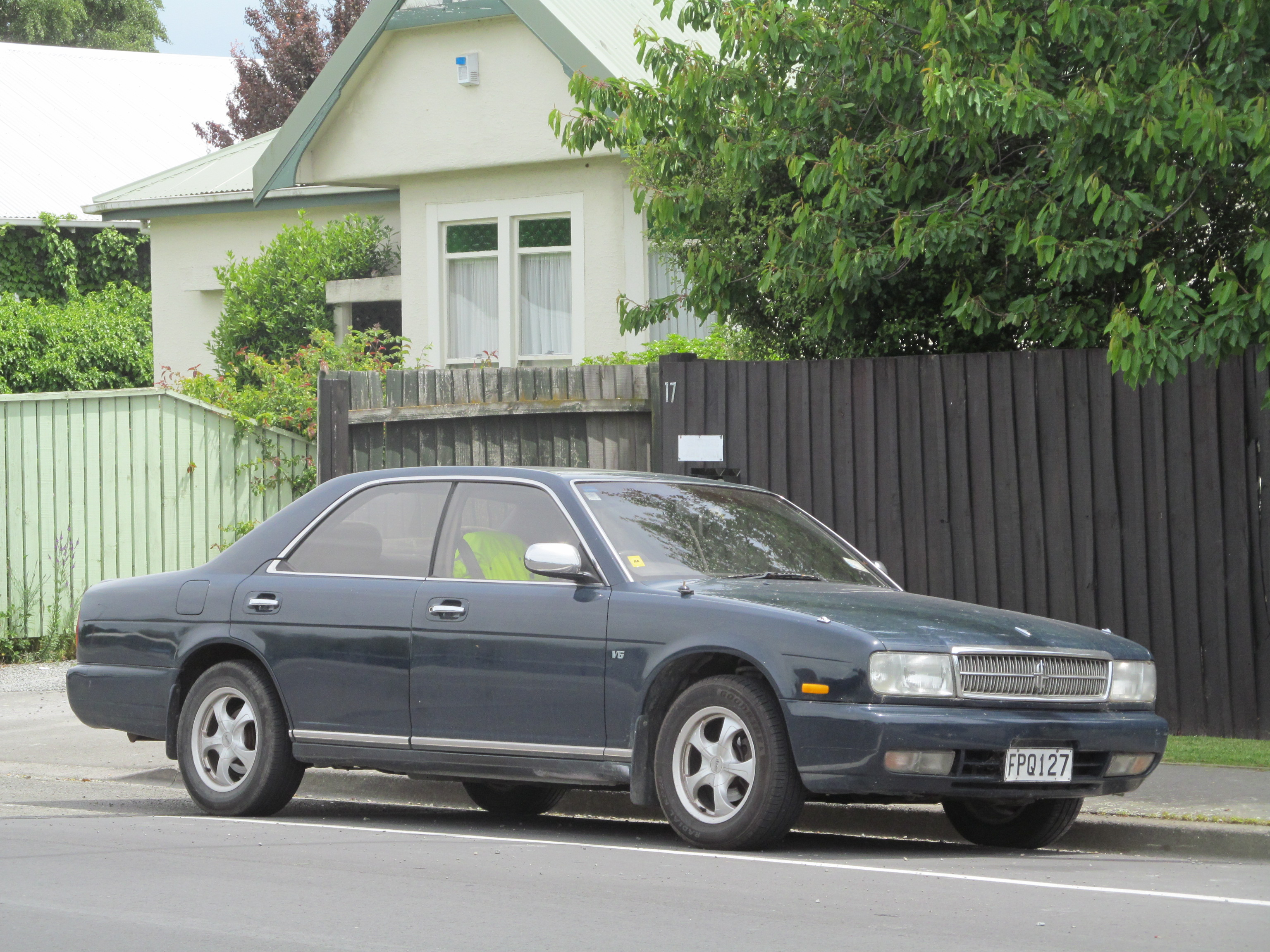 Another big cruiser to round off the large Japanese saloons tonight. Can't say I've seen a Cedric of this shape before.